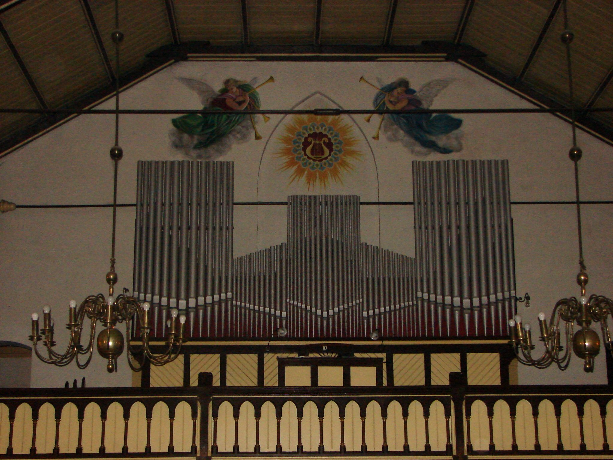 The St. Paul Church organ in Elblag